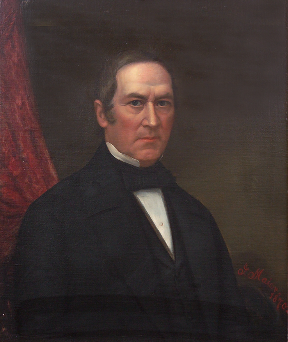 John Macpherson Berrien, U.S. Attorney General 1829–1831, portrait.